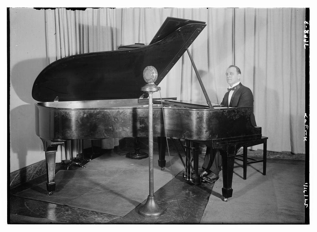 Frank La Forge at a piano in 1915